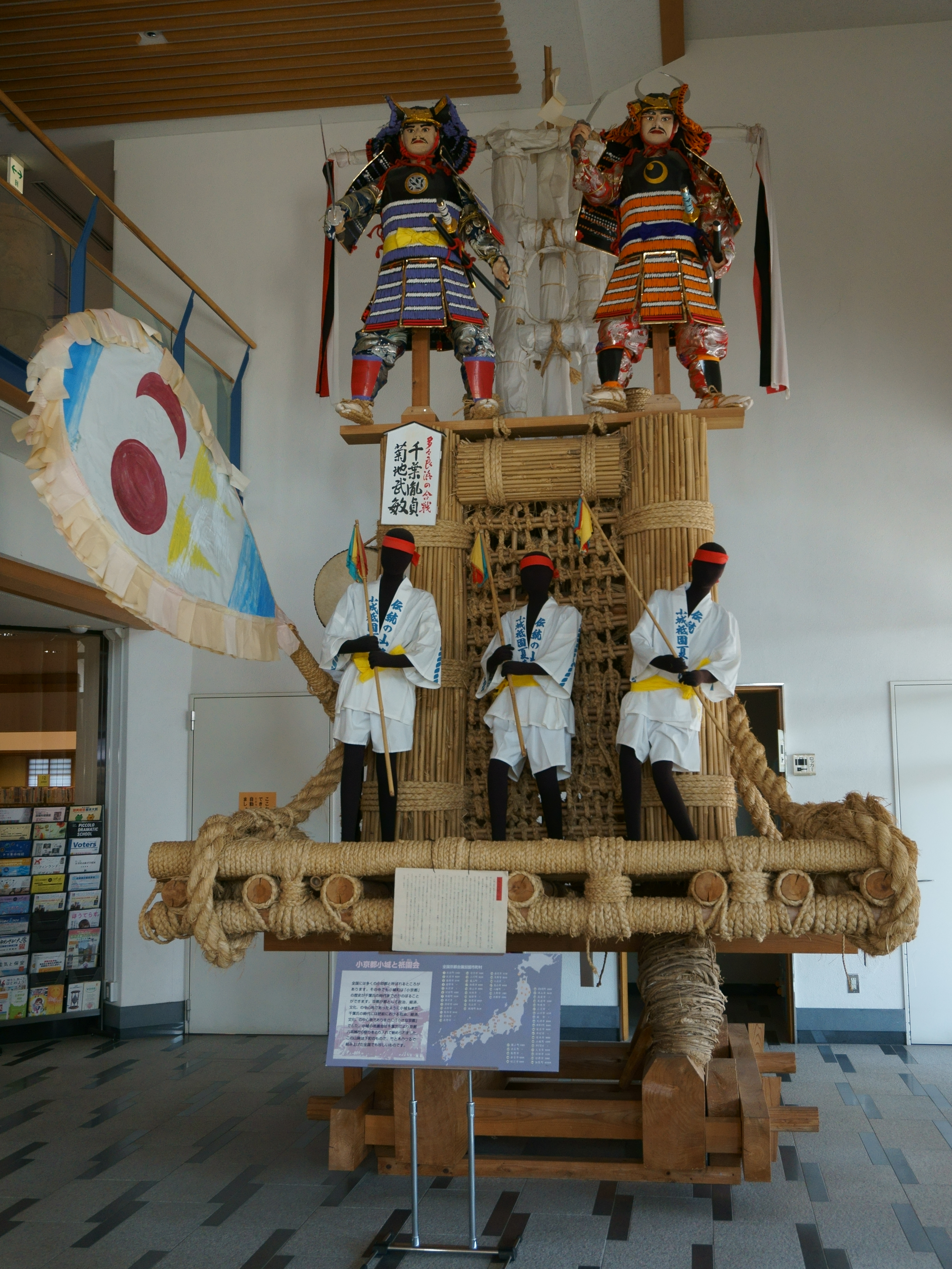 A resized replica of 'Hikiyama'(parade float) of Yamabiki Gion Festival in Ogi city, Saga prefecture. It's displays at Ohjōkan in Ogi.